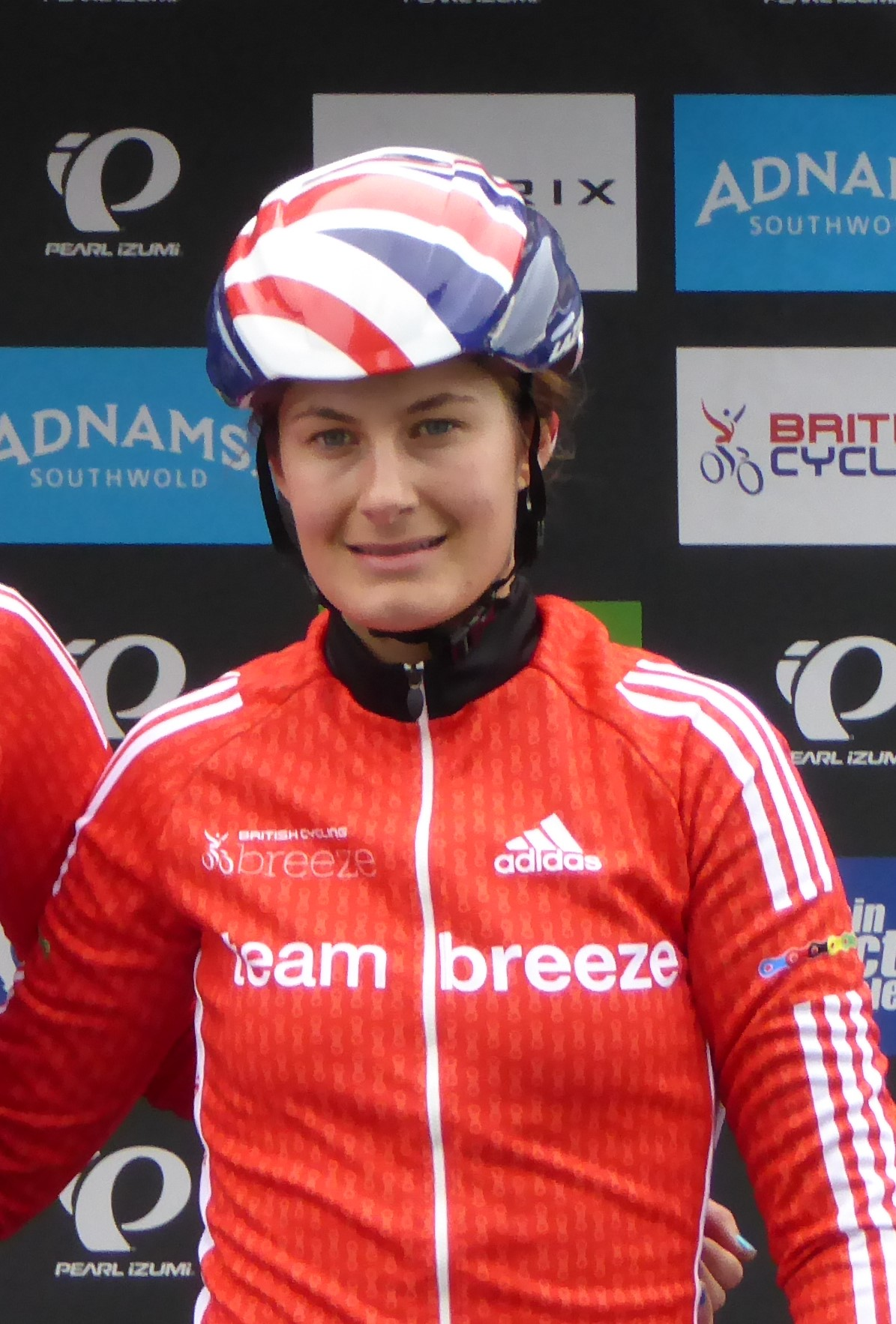 Hayley Jones, prior to Round 1 of the Matrix Fitness GP Series in Motherwell, on 17 May 2016